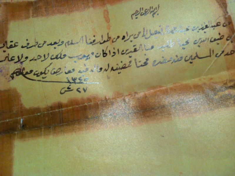 A document of King Abdulaziz yo oqab bin mohaya